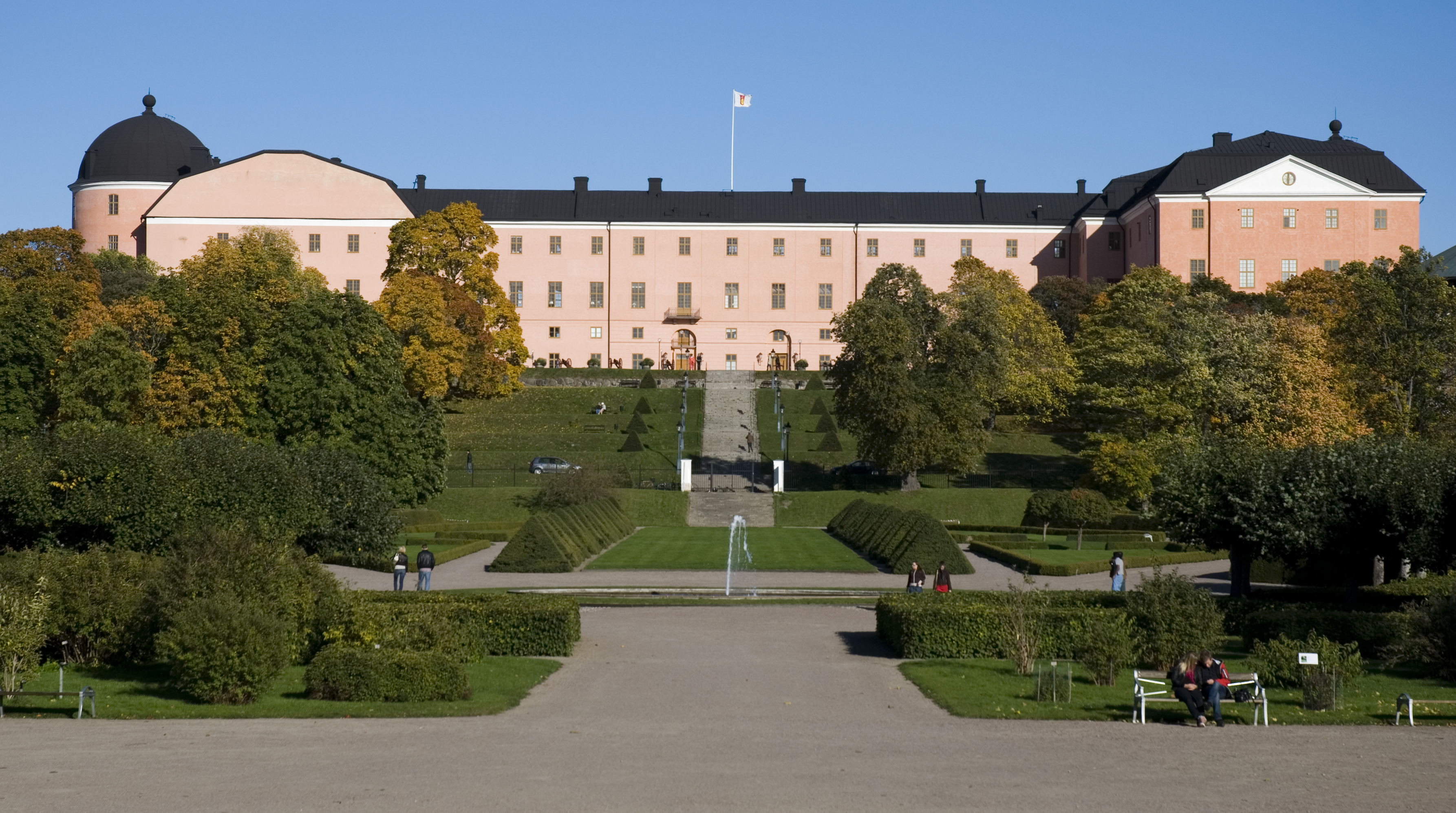 Uppsala slott, as seen from the neighbouring botanical garden.